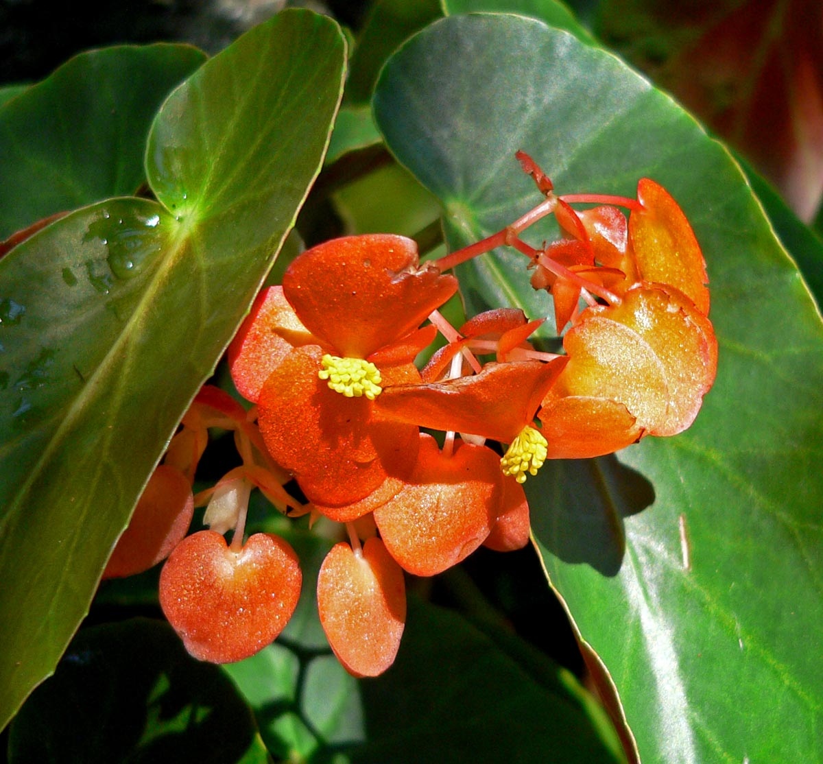 Photo of Begonia 'Orange Sherbet' at Balboa Park